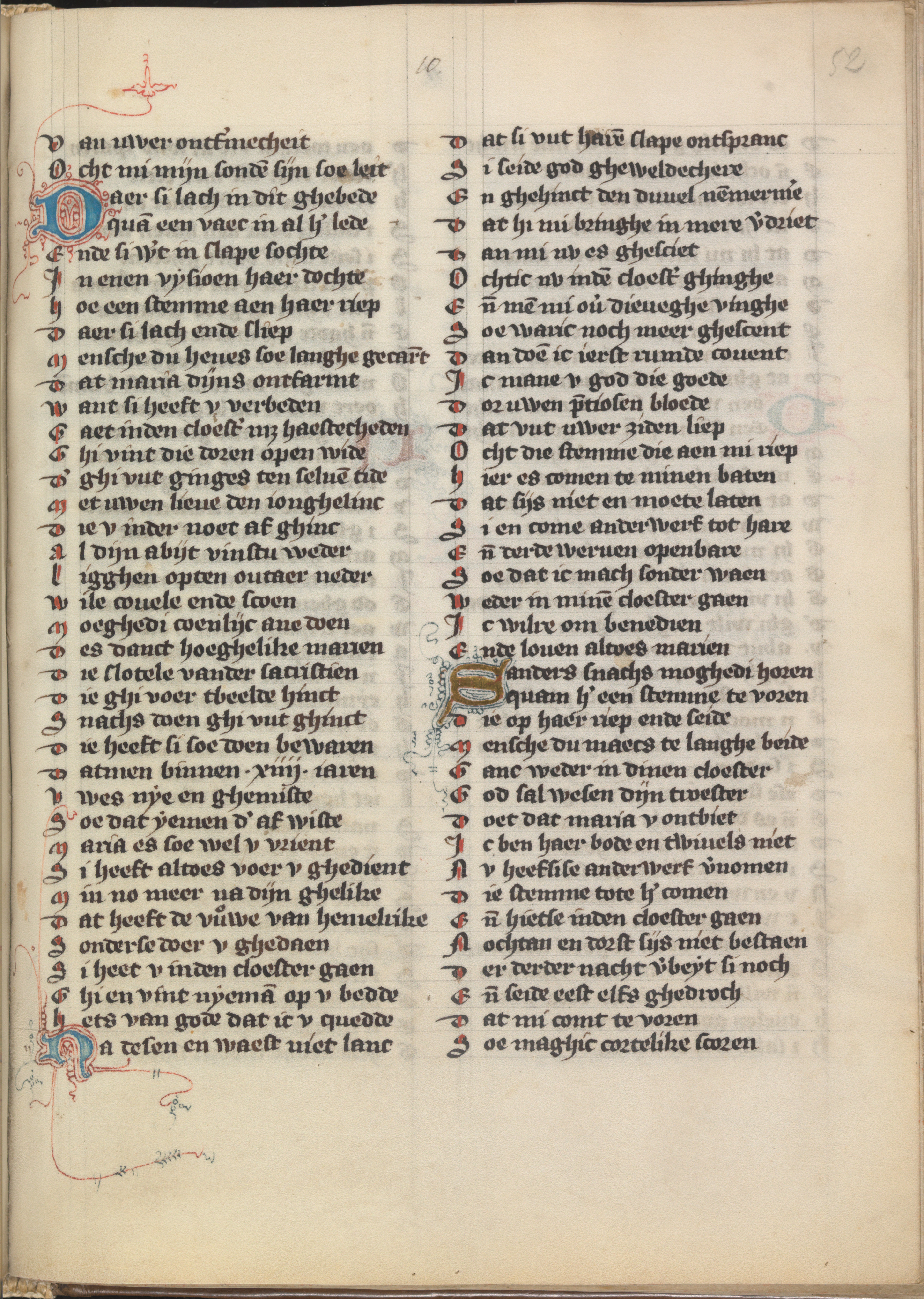 Beatrijs. This text is folium 052r of the manuscript KB 76 E 5 containing Die Dietsche Doctrinale by Jan van Boendale, Beatrijs, Dit es vanden aflate van Rome, Die heimelicheit der heimelicheden by Jacob van Maerlant and other texts